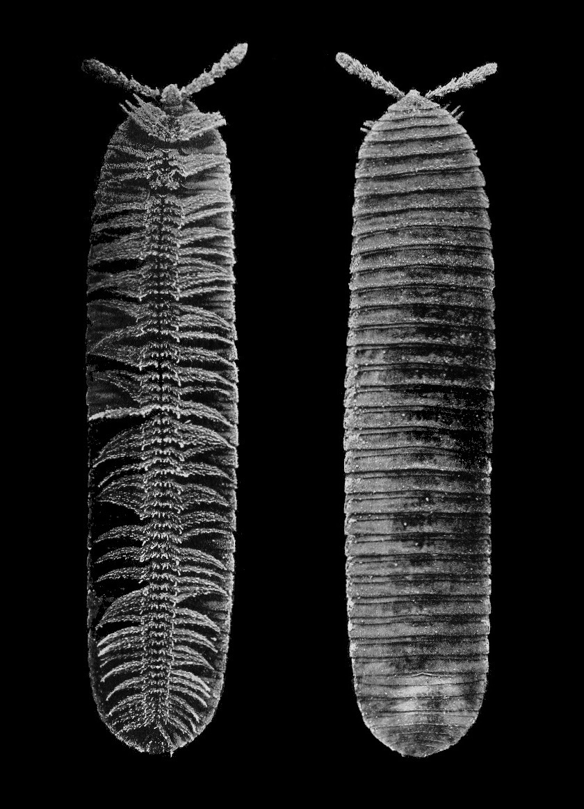 Bdellozonium cerviculatum, male, ventral and dorsal views.